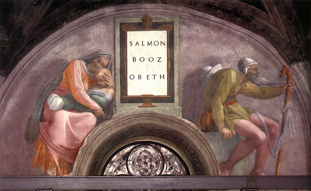 fresco painted by Michelangelo at the Sistine Chapel in the Vatican between 1508 to 1512